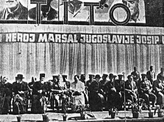 Celebrating Tito in Zagreb in 1945, in presence of Orthodox dignitaries, the Catholic cardinal Aloysius Stepinac, and the Soviet military attaché. Front row, from left: three dignitaries of the Orthodox Church; a Partisan General; the Secretary to the Apostolic Visitor; Auxiliary Bishop Josip Lach; Archbishop Aloysius Stepinac; communist Vladimir Bakarić; the Soviet Military Attache; and the Minister of the Interior, Dr. Hebra.